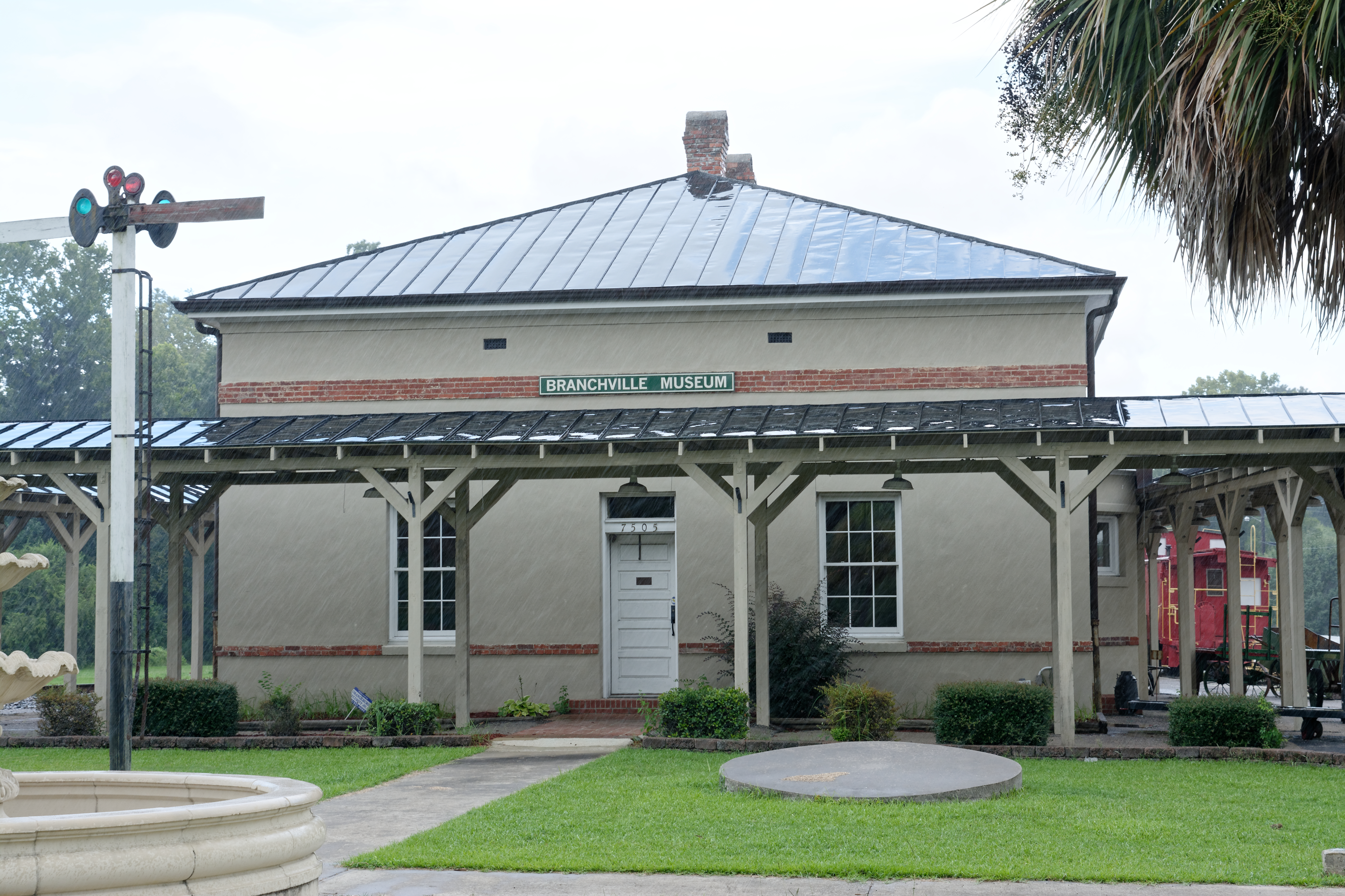 Southern Railway Passenger Depot, Branchville, South Carolina, U.S. Now a museum.